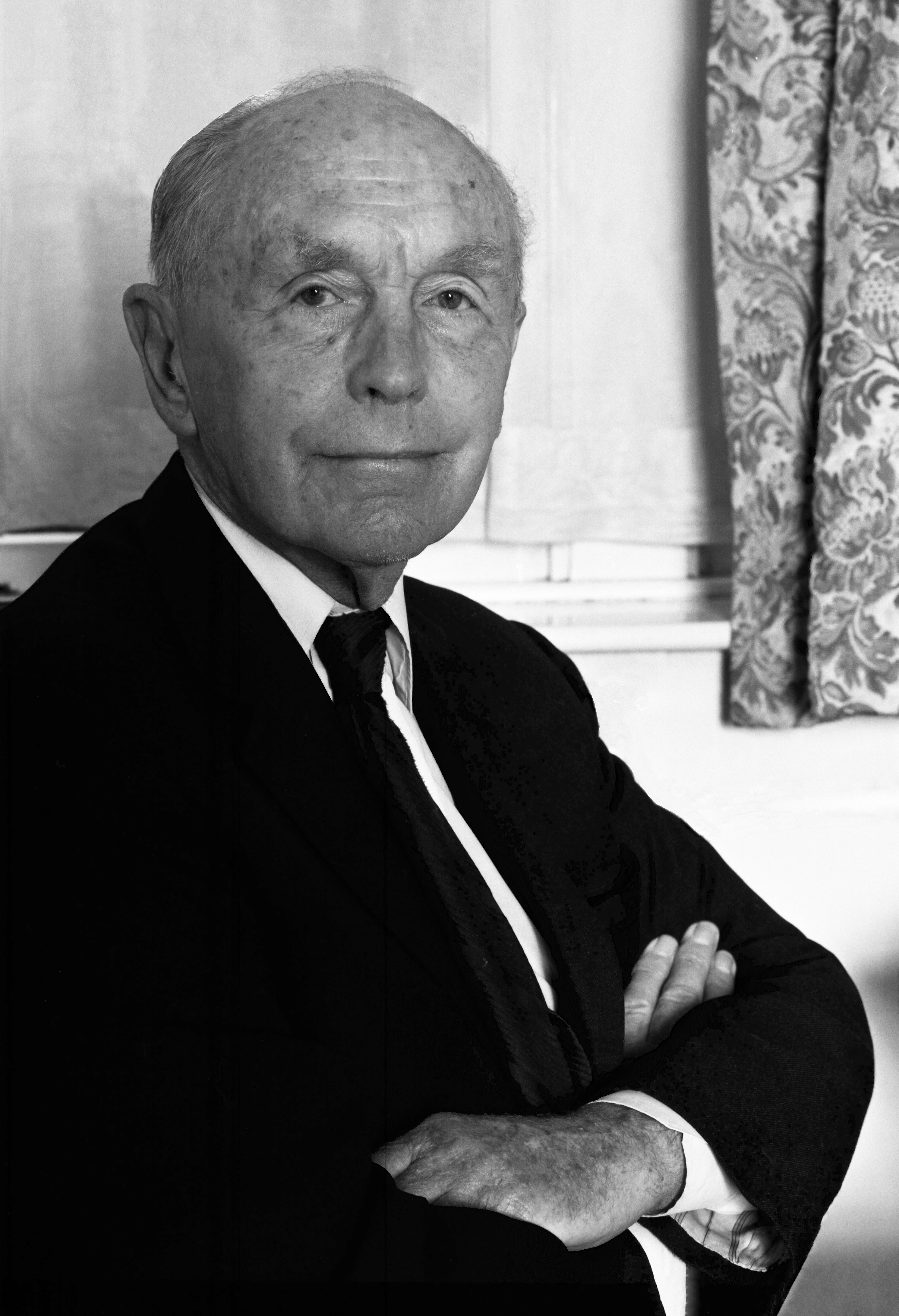 Lord Home at his apartment in Westminster, London